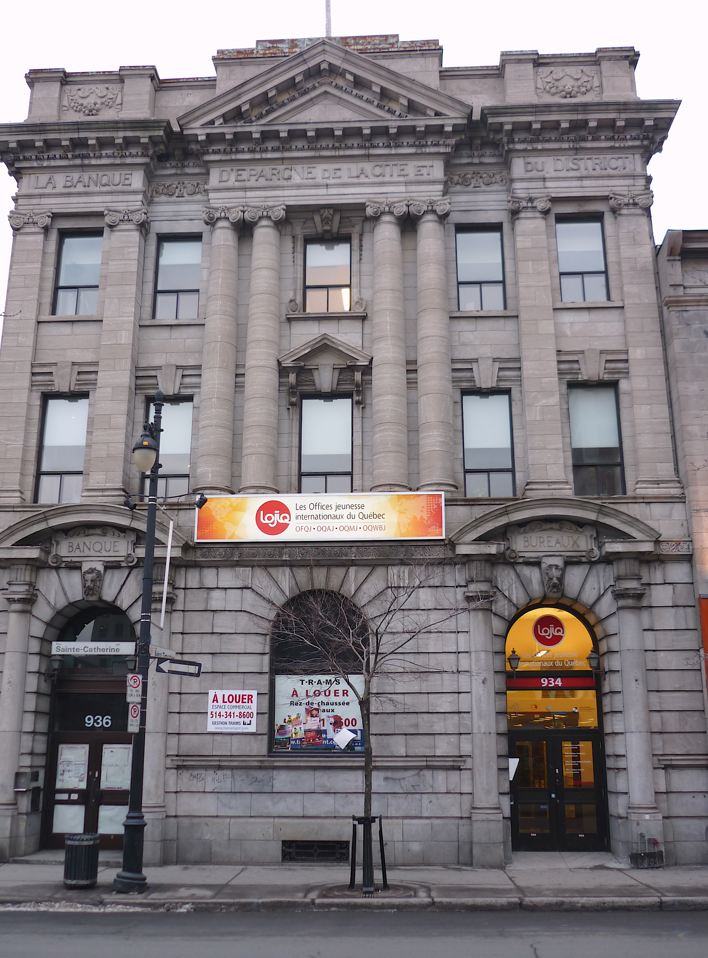 LOJIQ - Les Offices jeunesse internationaux du Québec